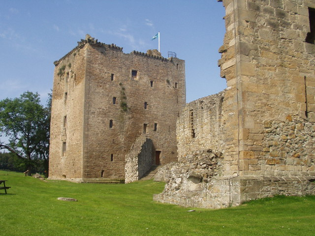 Spynie Palace